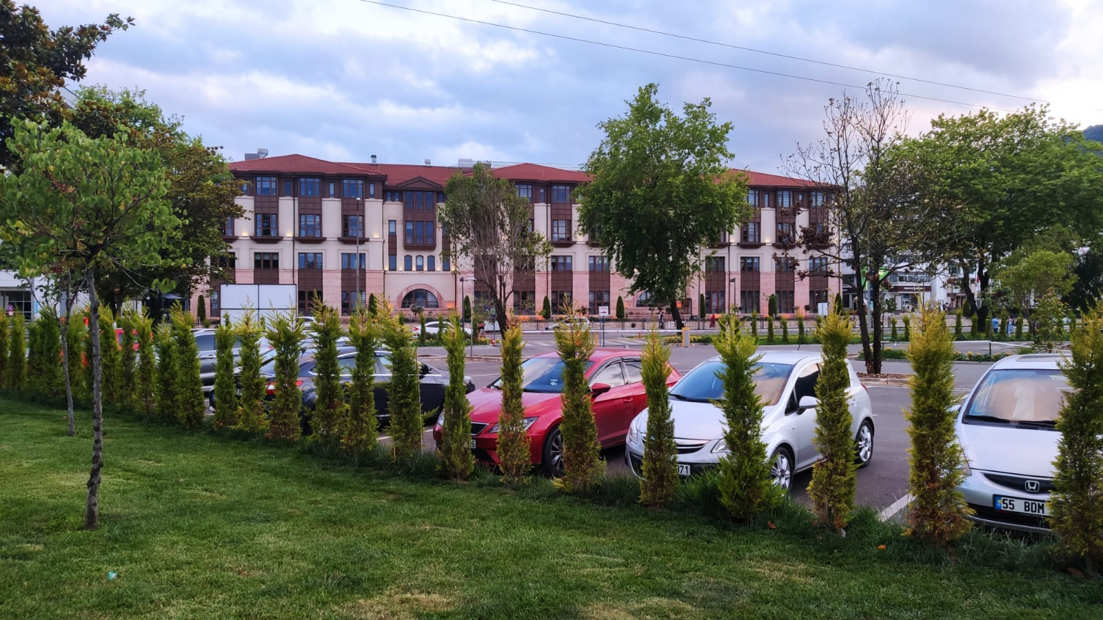 Ordu Municipality Building